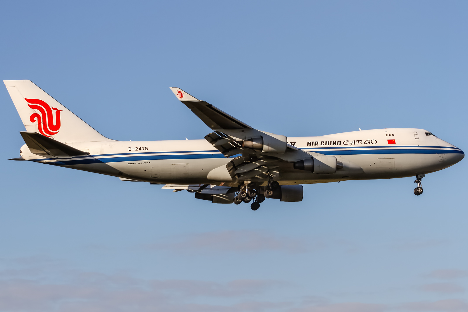 B-2475 Air China Cargo Boeing 747-4FTF coming in from Shanghai PuDong (PVG / ZSPD)@ Frankfurt - Rhein-Main International (FRA / EDDF) / 30.10.2016